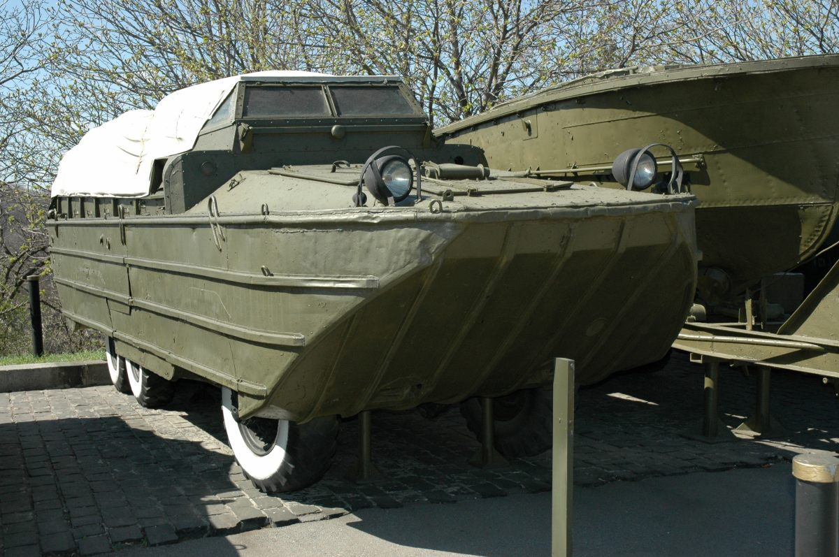 ZIL-485 (BAV) Soviet amphibious truck (Museum of Great Patriotic War, Kyiv)